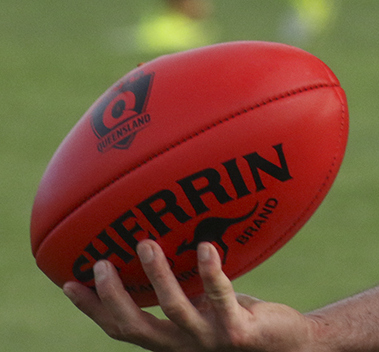 A Sherrin "Kangaroo Brand" ball used in Australian rules football